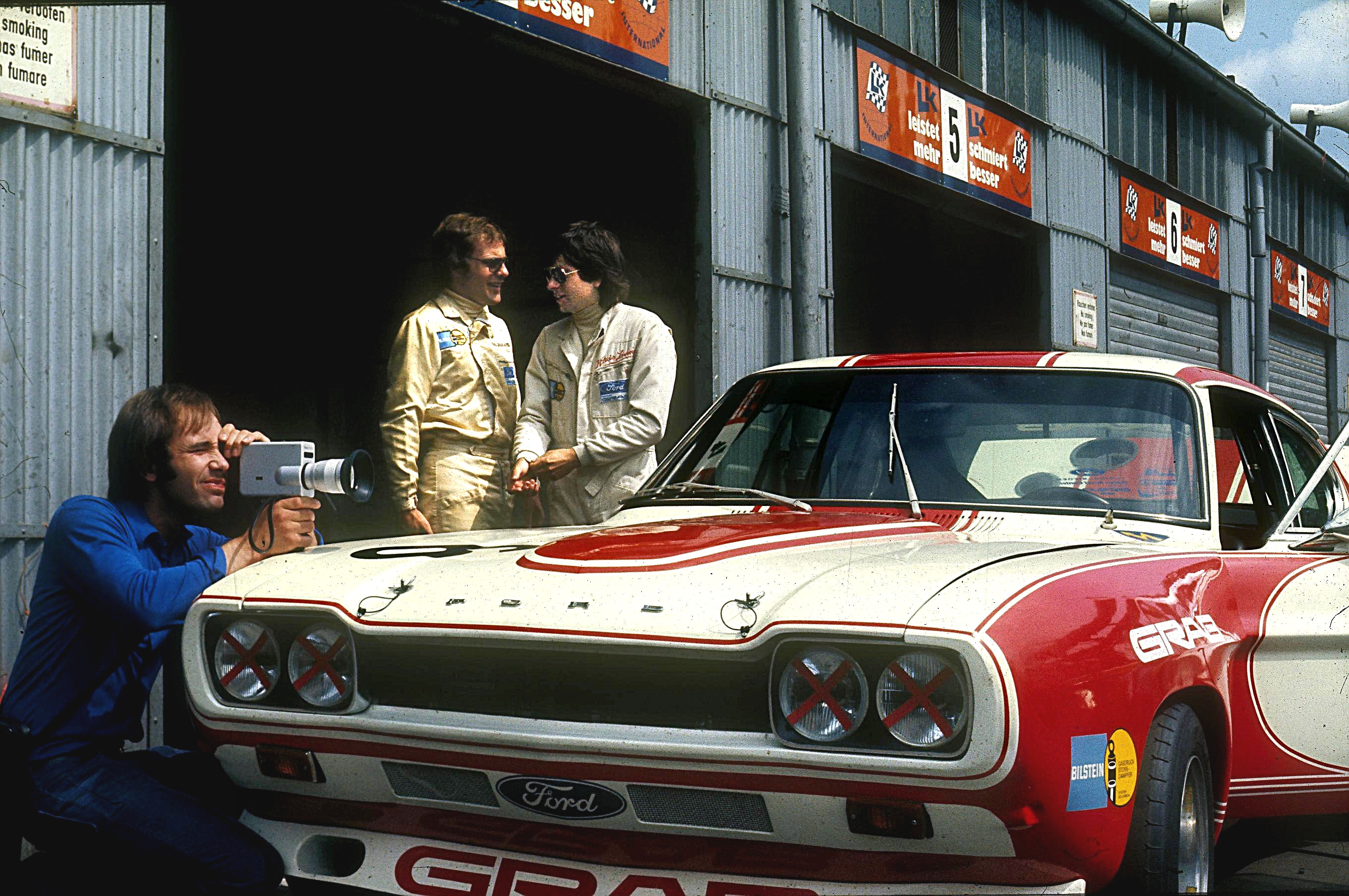 Klaus Ludwig (right) and Karl-Ludwig Weiß 1973 at paddock of Nürburgring.